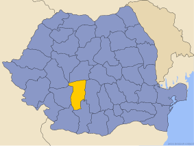 Location of Vâlcea County in Romania.